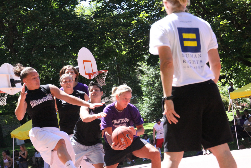 HRC's 3rd Annual 3X3 Women's Basketball Tournament, July 23, 2011, in Portland, Oregon. Photo by Marty Davis / Just Out.